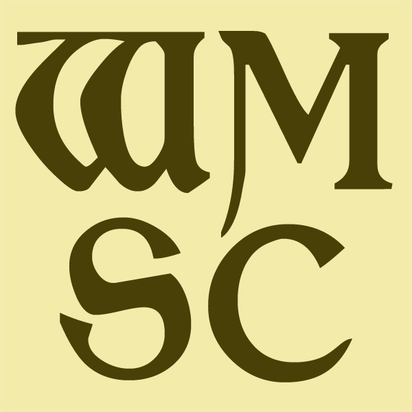 William Morris Society of Canada logo